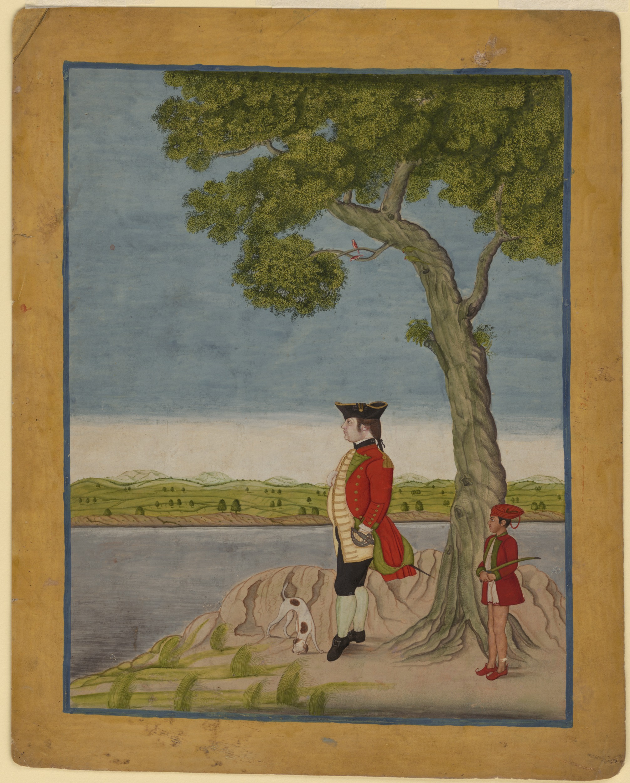 The pictures made by Indian artists for the British in India are called Company paintings. This one shows a military officer of the East India Company. The Indian artist has used the native technique and the style of the late Mughal Murshidabad school of painting. However, the style is moving in the direction of Company painting. The tree in particular shows the influence of European watercolours. The river is probably the Bhagirathi in West Bengal.